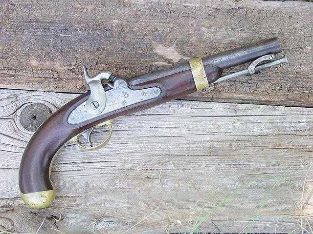 aston-johnson 54 caliber smoothbore martial pistol